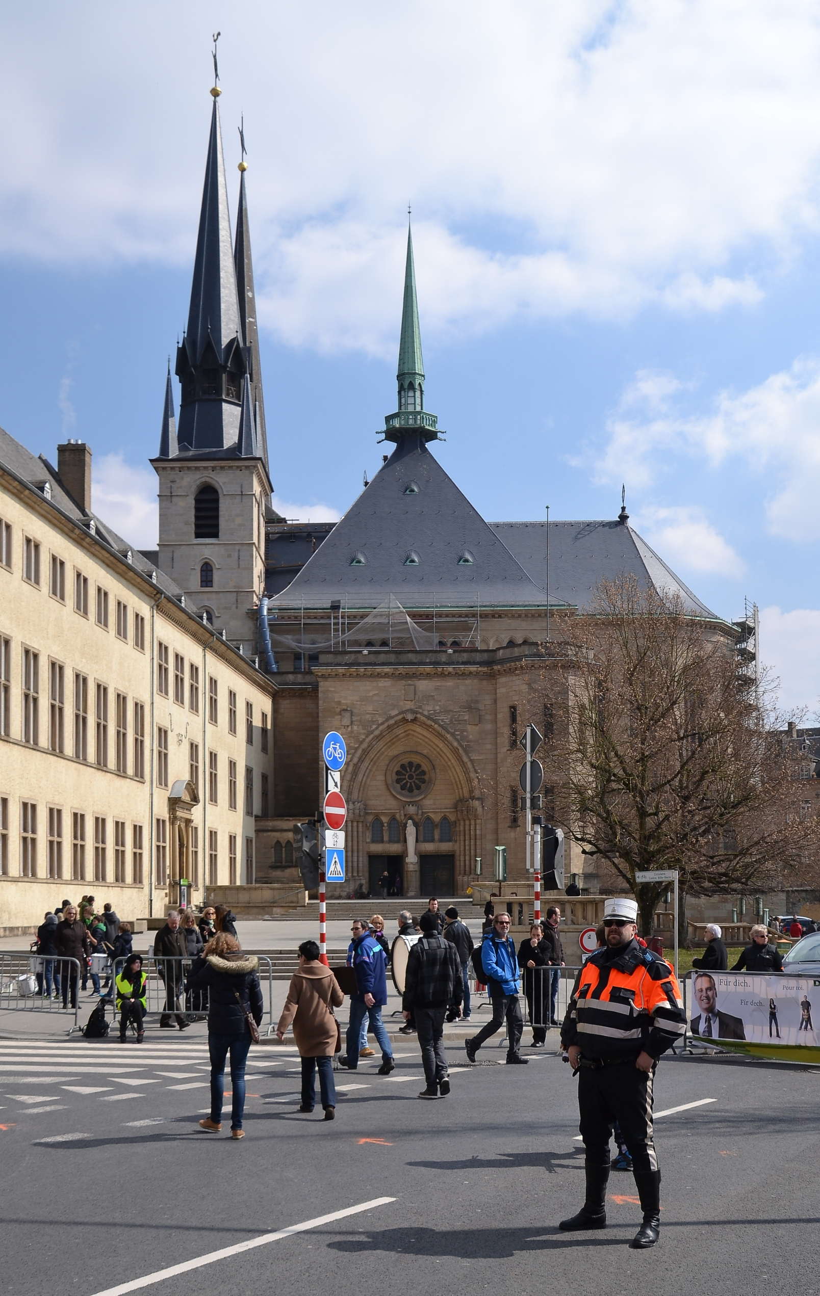 Cathédrale Notre-Dame de Luxembourg and policeman